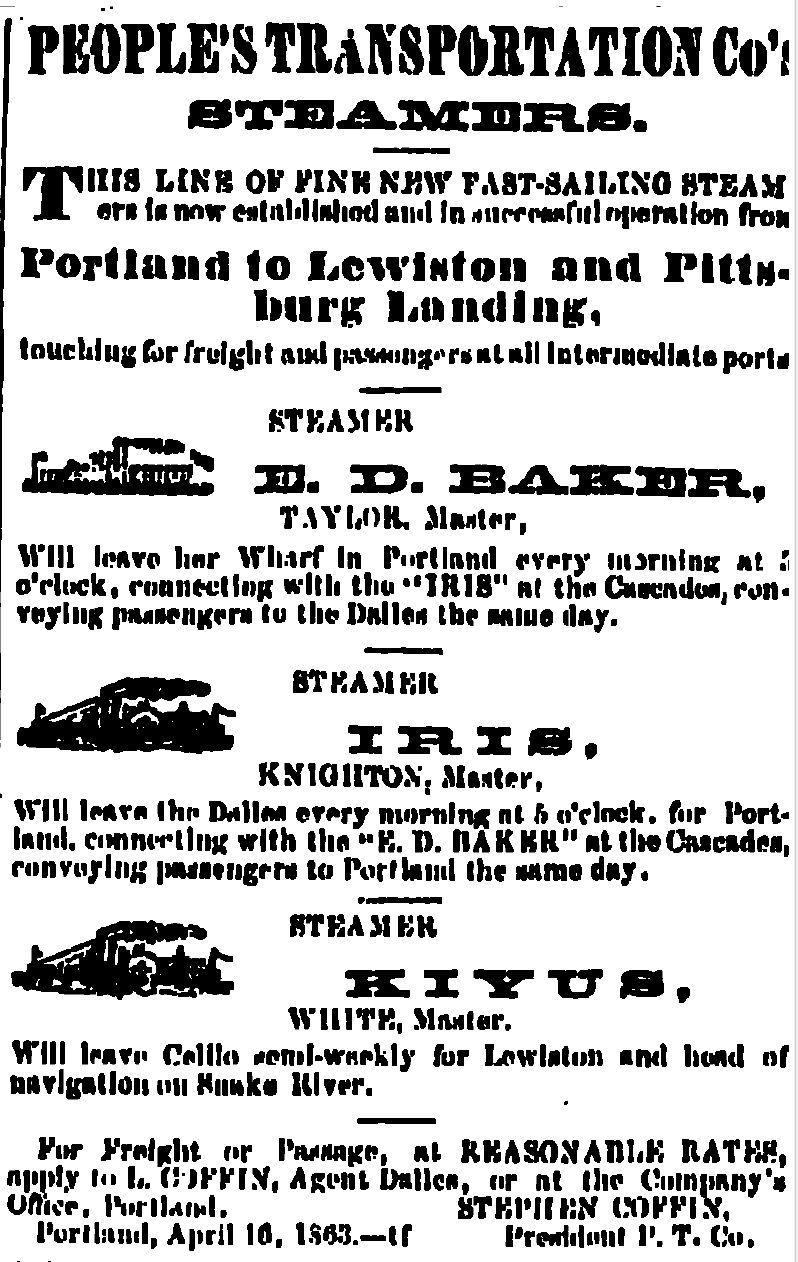 Advertisement for steamers of the People's Transportation Company.